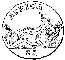 738 woodcuts illustrating the work A Dictionary of Roman Coins, Republican and Imperial (1889). To identify a coin please look at the filename to identify a page number, and check the Dictionary on numiswiki